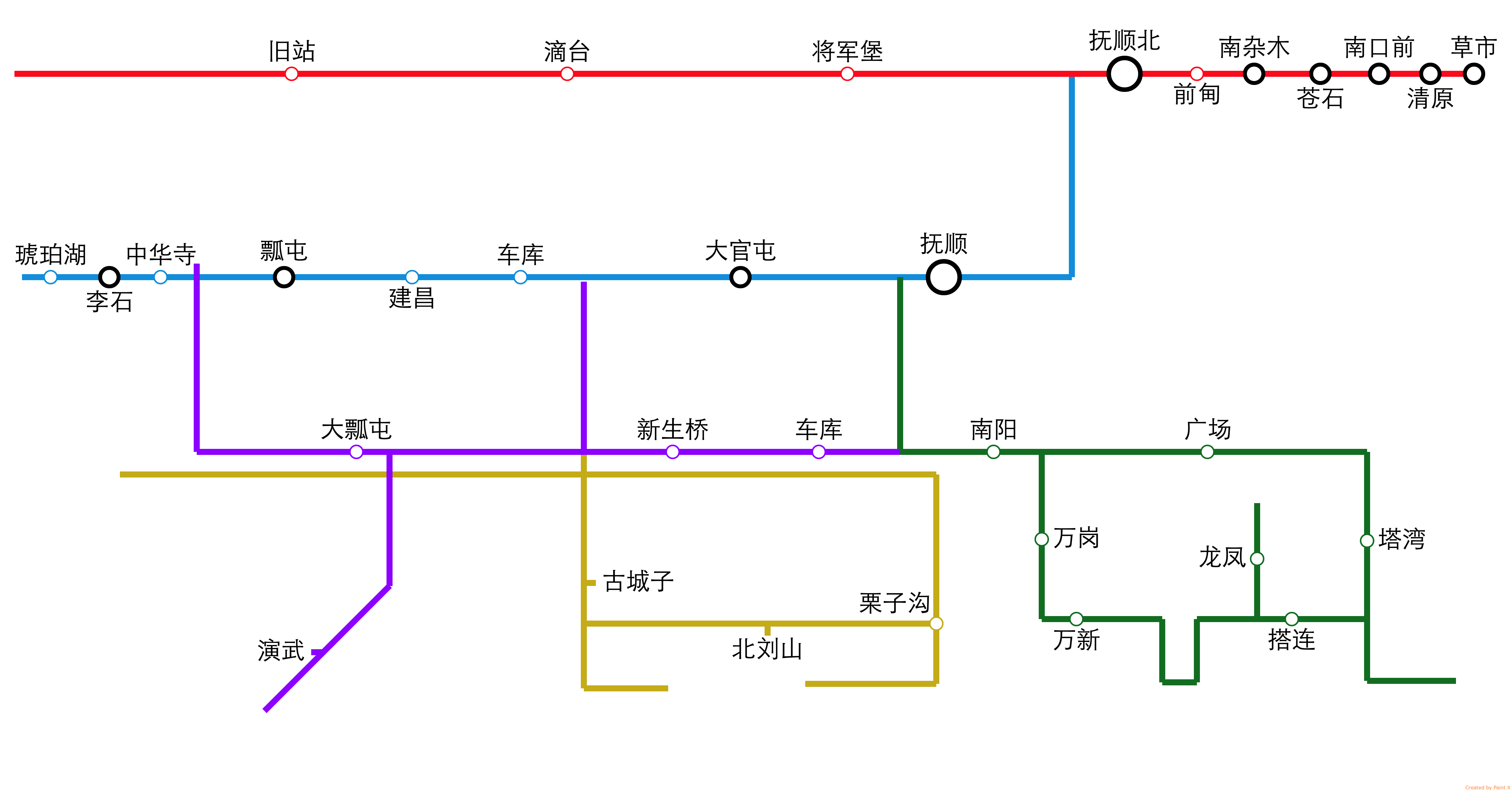 fushun metro